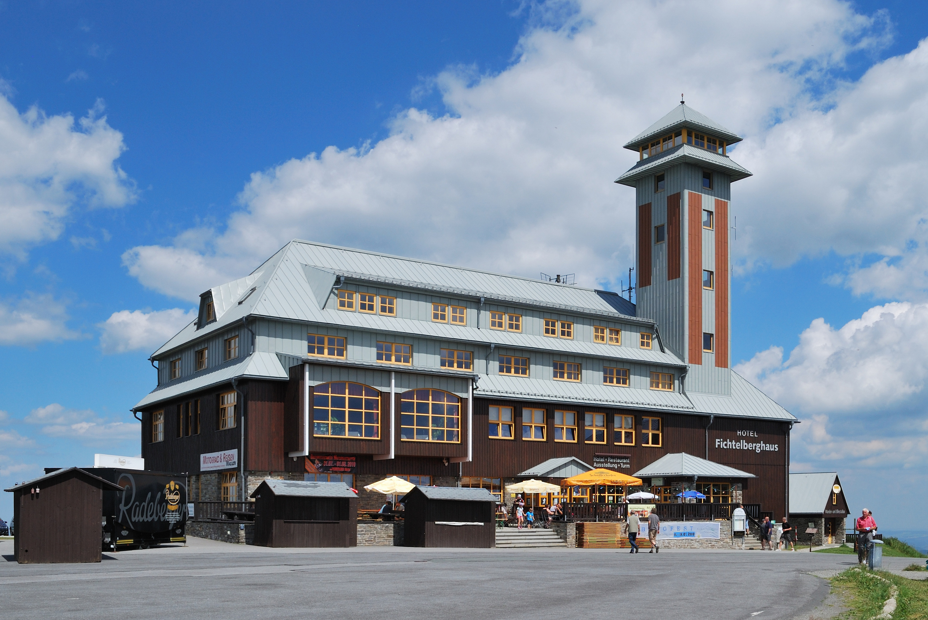 The Fichtelberghaus on the peak of the mountain Fichtelberg in summer 2010. Saxony in Germany.